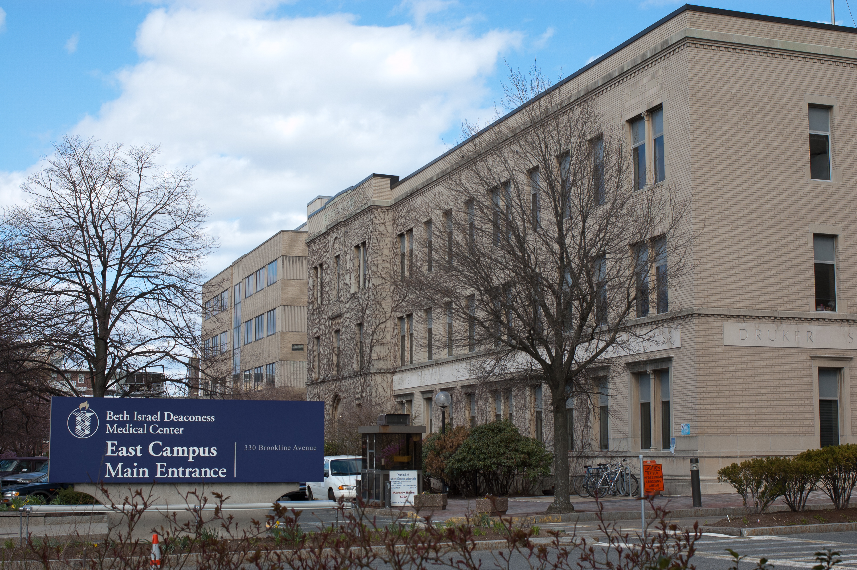 The main entrance to the east campus of the Beth Israel Deaconess Medical Center, on Brookline Avenue in Boston.